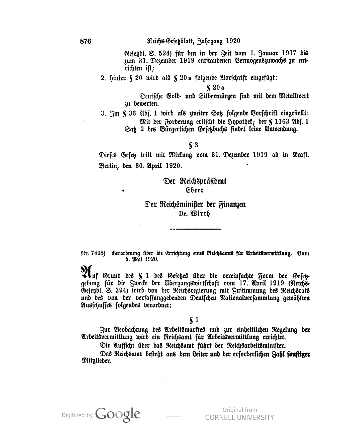 Scan from the Imperial Law Gazette of Germany, 1920